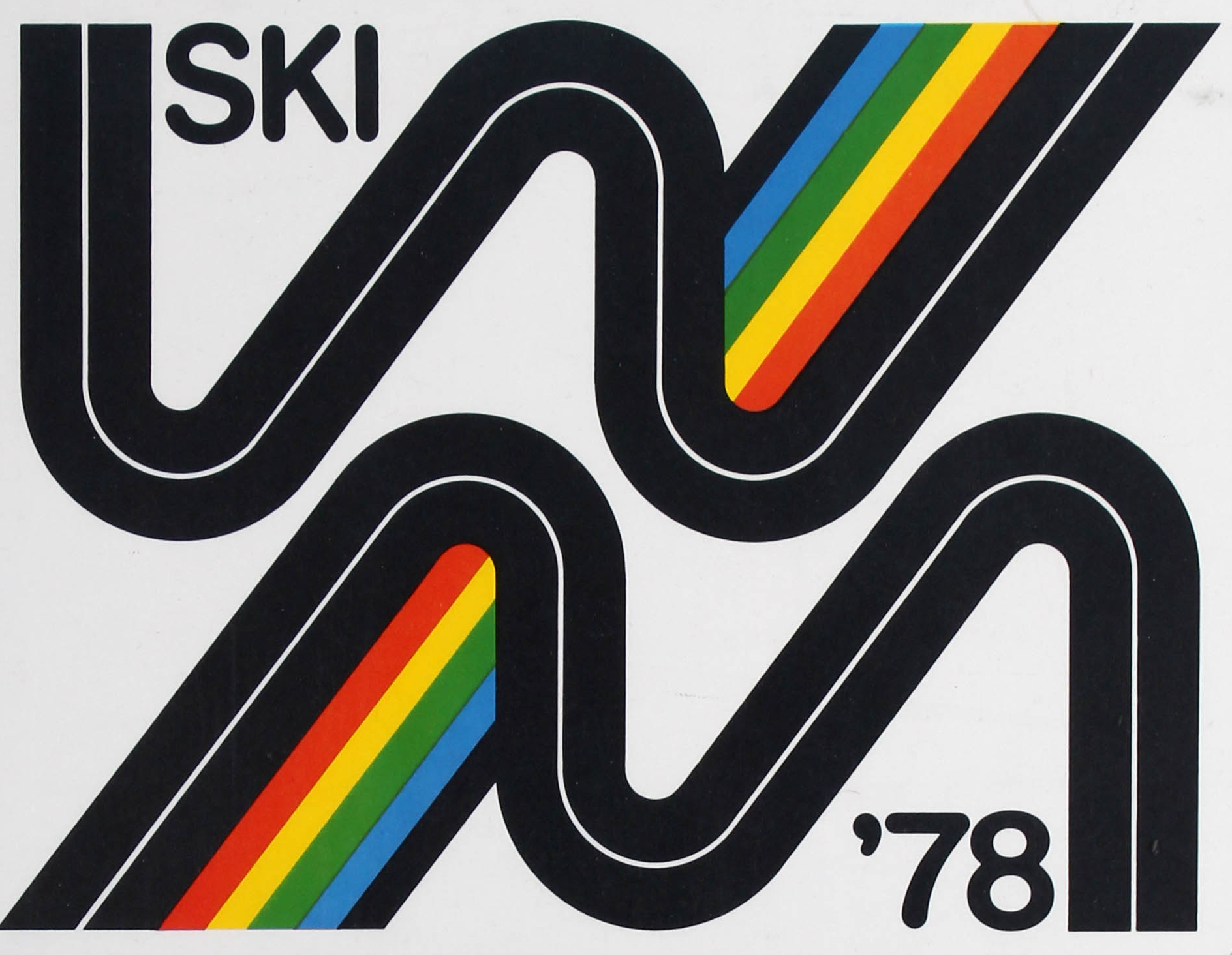 Logo of FIS alpine world ski championships 1978 in Garmisch (GER)